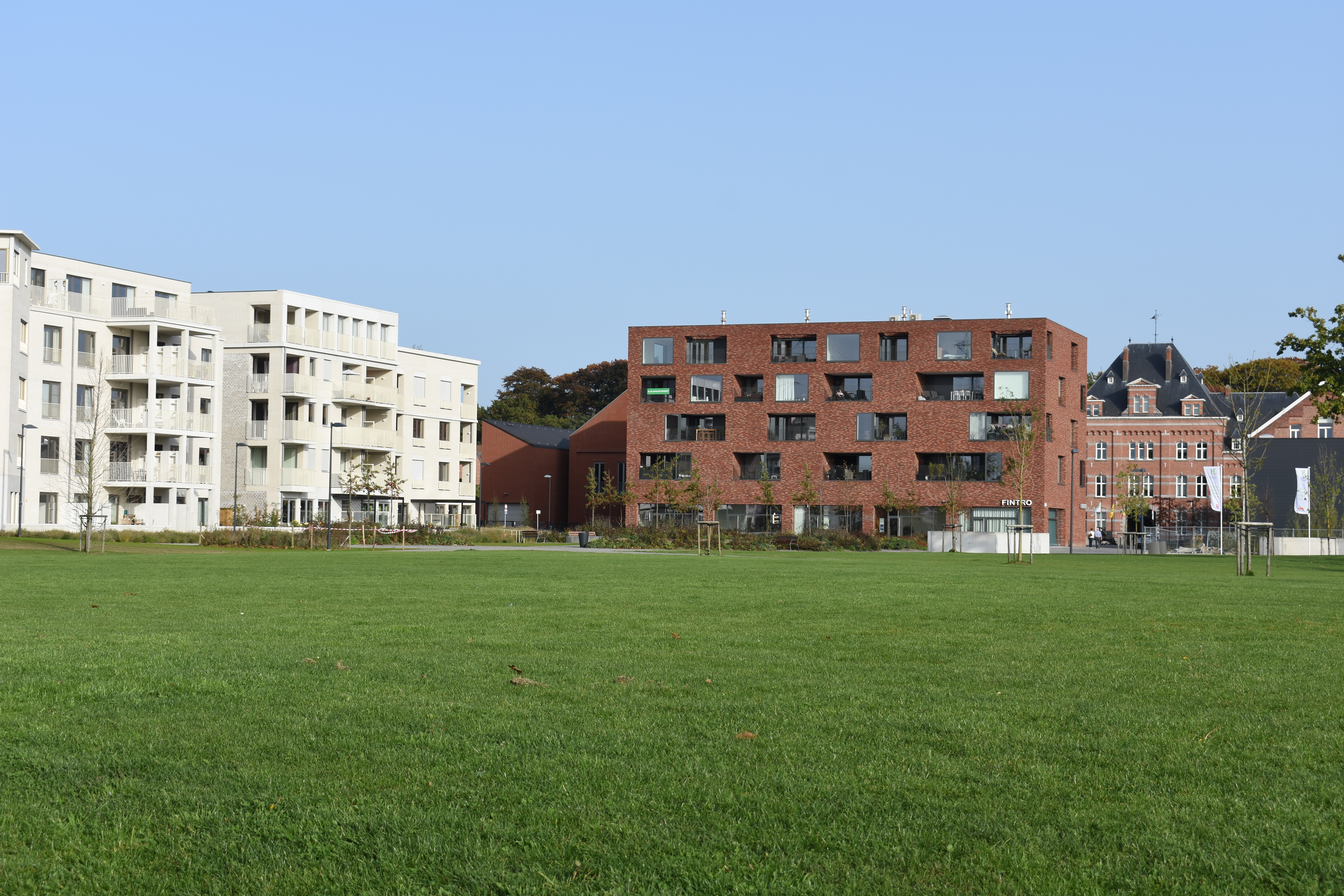 Apartment buildings, Dungelhoeffsite, 2017. To the far right, the old barracks of Dungelhoeffkazerne